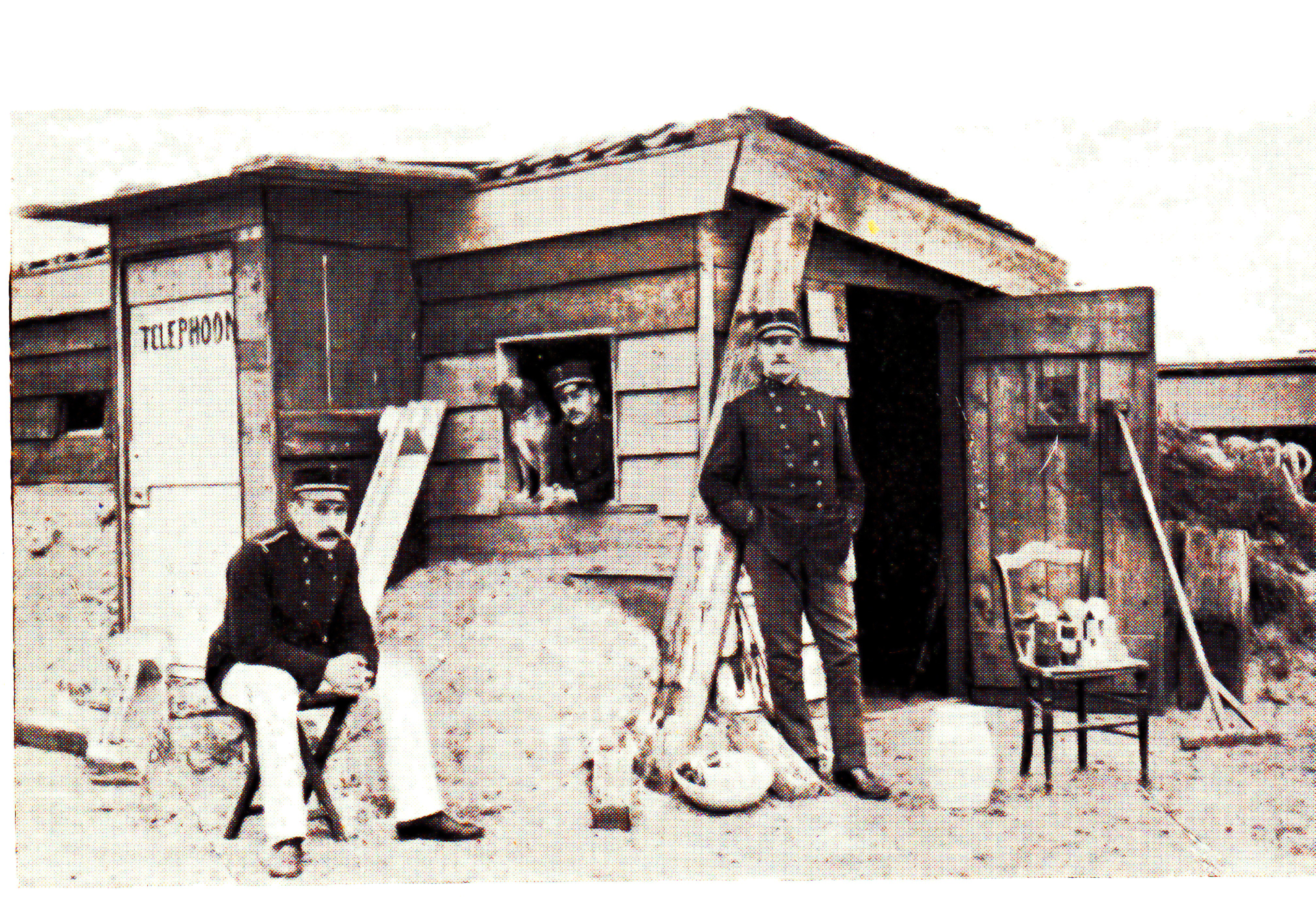 Wouter Cool in de Biltse Duinen